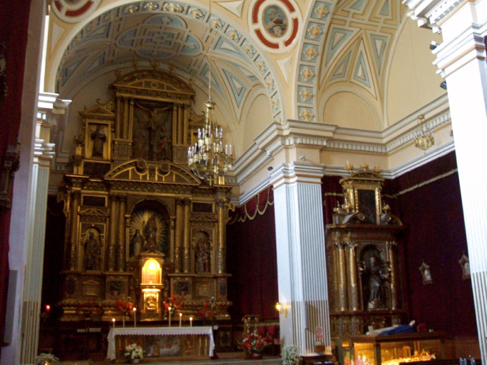 Iglesia del Convento de la Concepción, Ágreda (Soria, Castilla y León, España)